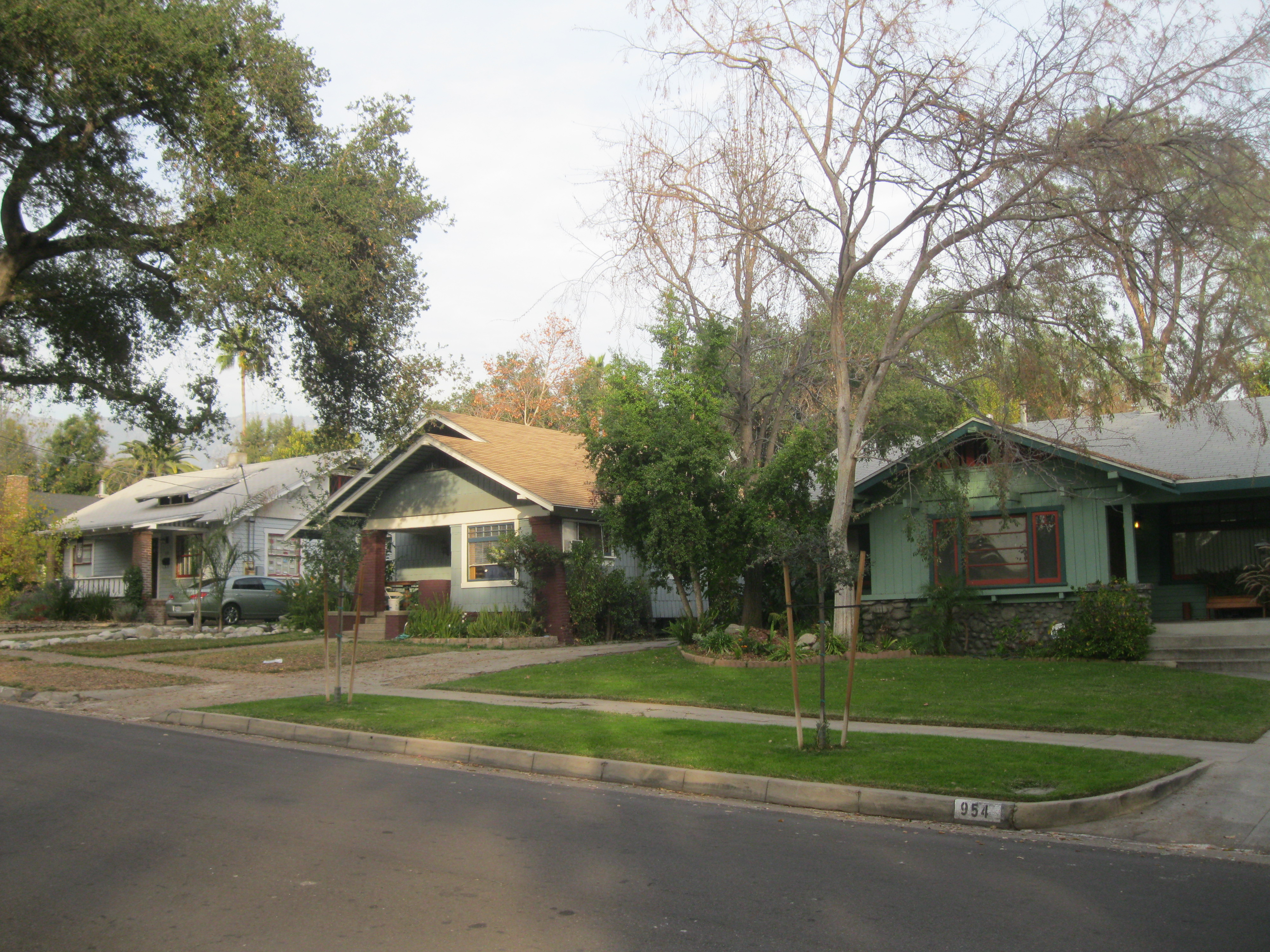 Homes along Michigan Avenue, north of Mountain Street, in the Bungalow Heaven Historic District of Pasadena, California.